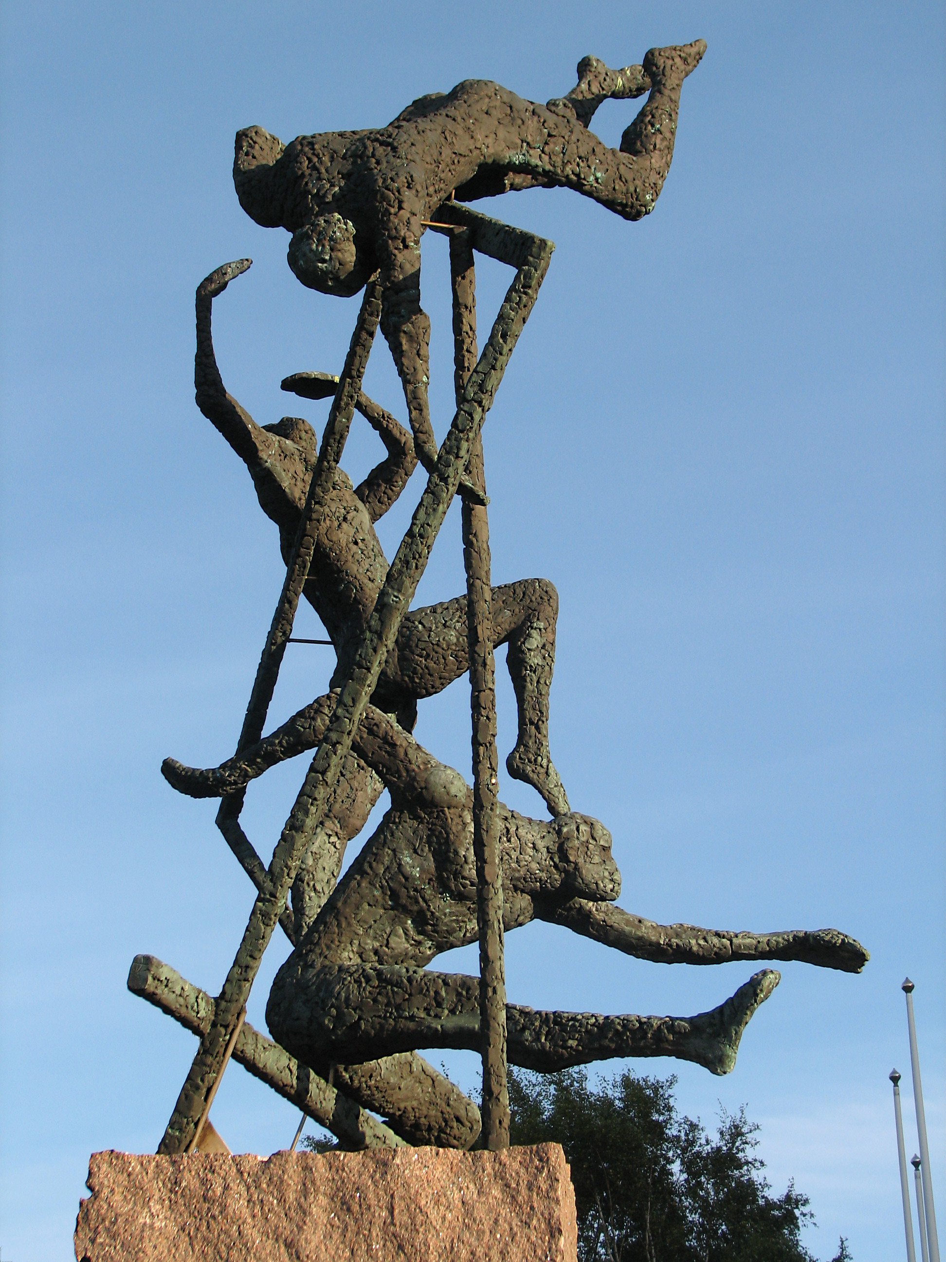 The sculpture "VM Fri Idrott" (World Championships in Athletics) from 1995 by Thord Tamming, placed outside New Ullevi Stadium in Göteborg, Sweden.